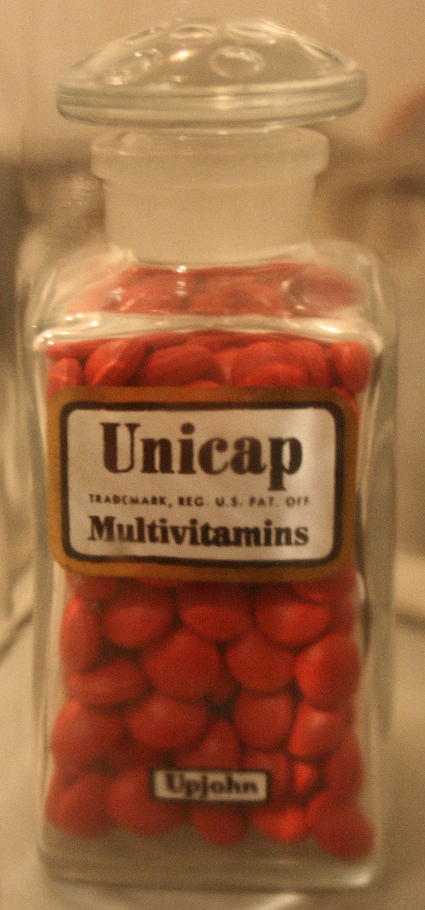 A glass container filled with the multivitamin Unicap, the product is made by the Upjohn company in Kalamazoo, MI. This is now an addition to the Kalamazoo Valley Museum.